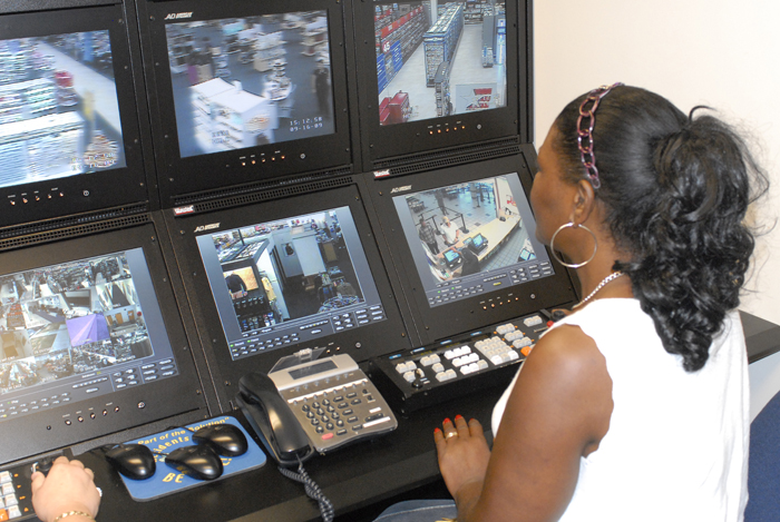 Patricia Maynor, of the Post Exchange's loss prevention office, scans the store Sept. 16 from an electronic video surveillance room.